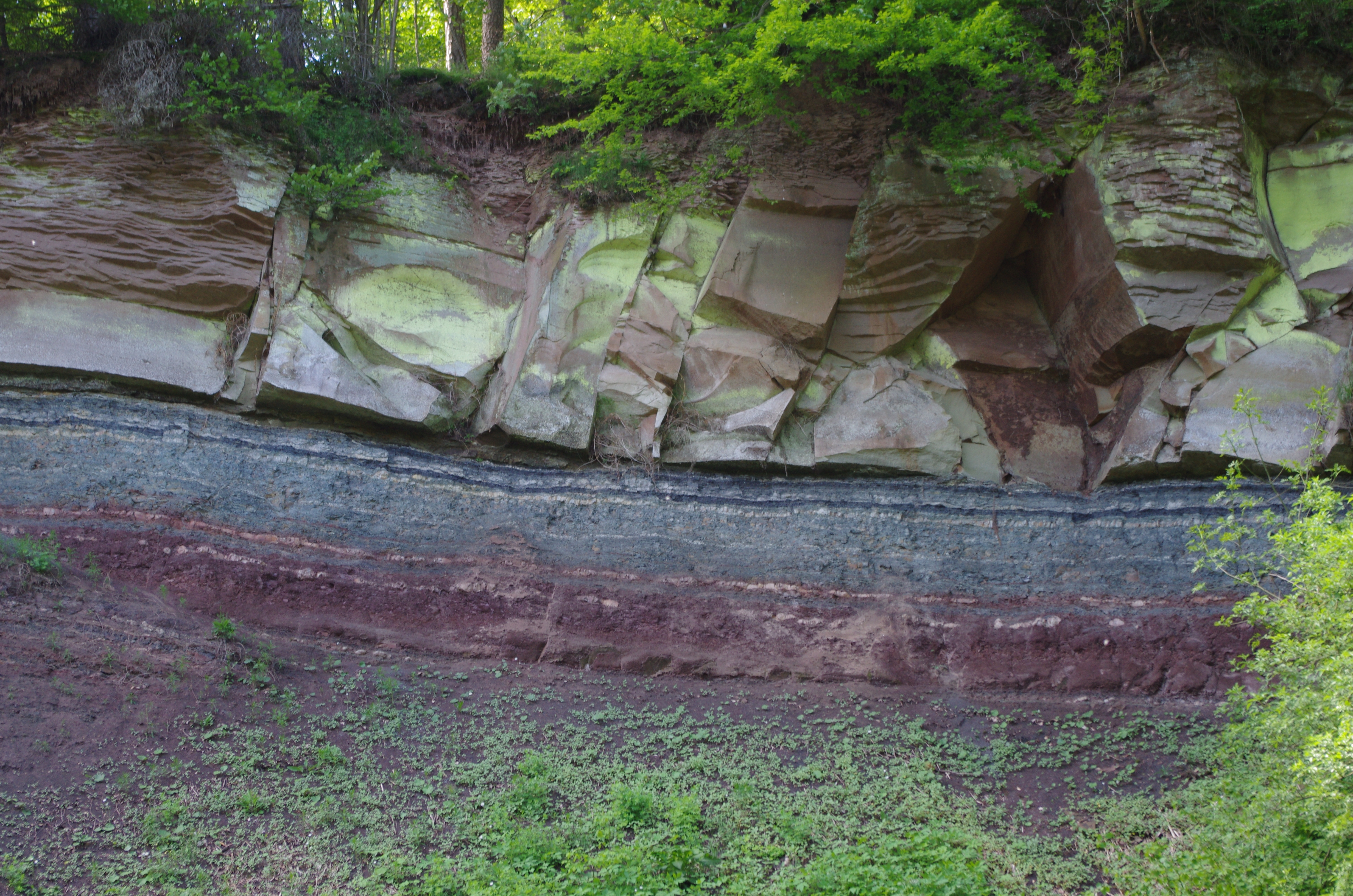 The Bodenmühlwand near Bayreuth, Germany